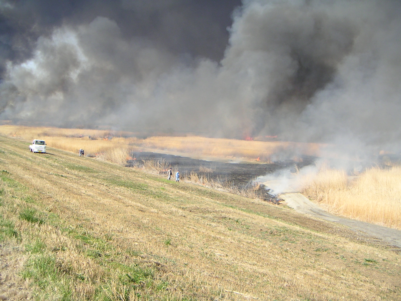 Yoshiyaki at WataraseYusuichi #2